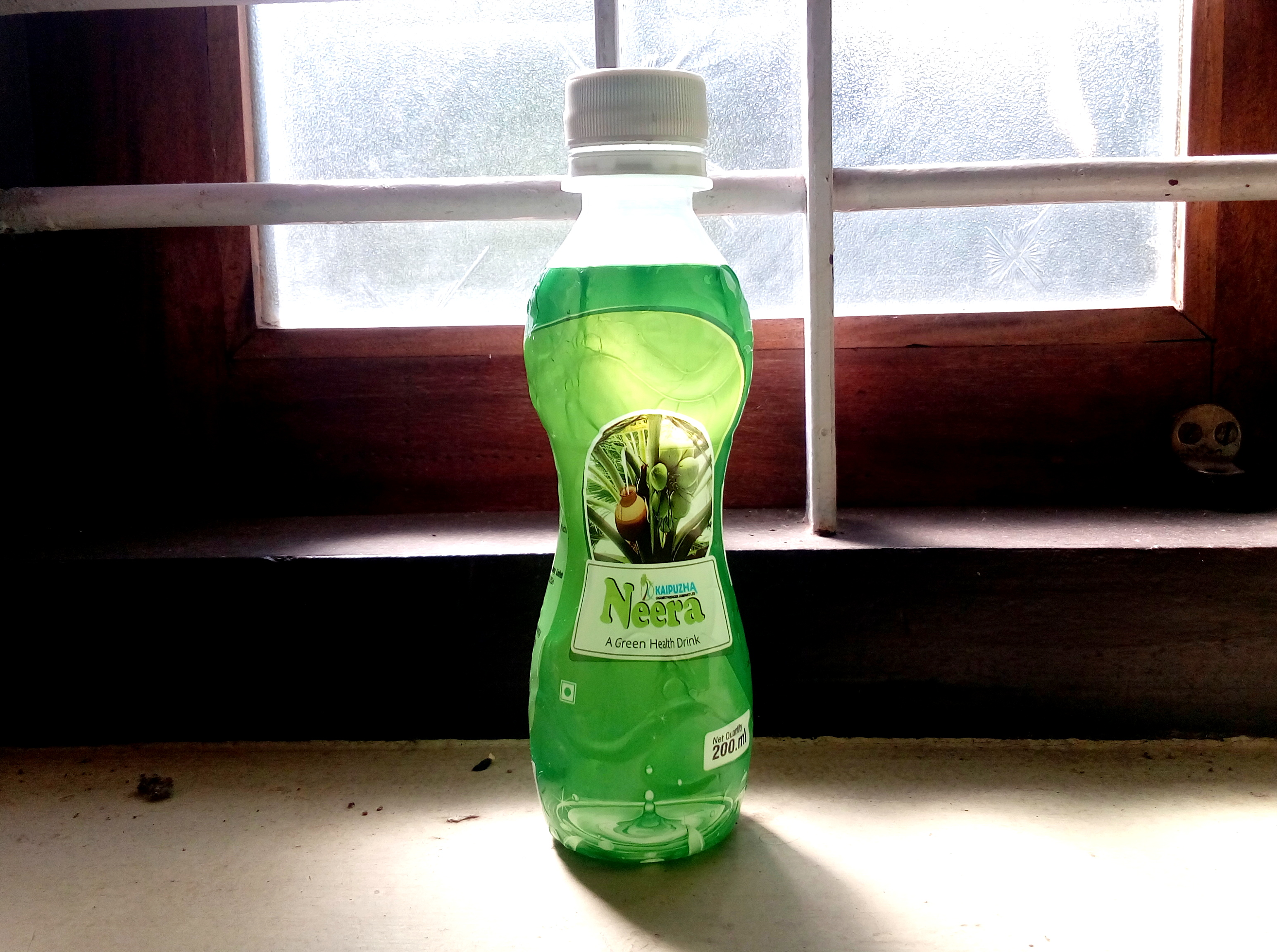 'Neera' health drink was first manufactured from Kaippuzha plant in Kollam